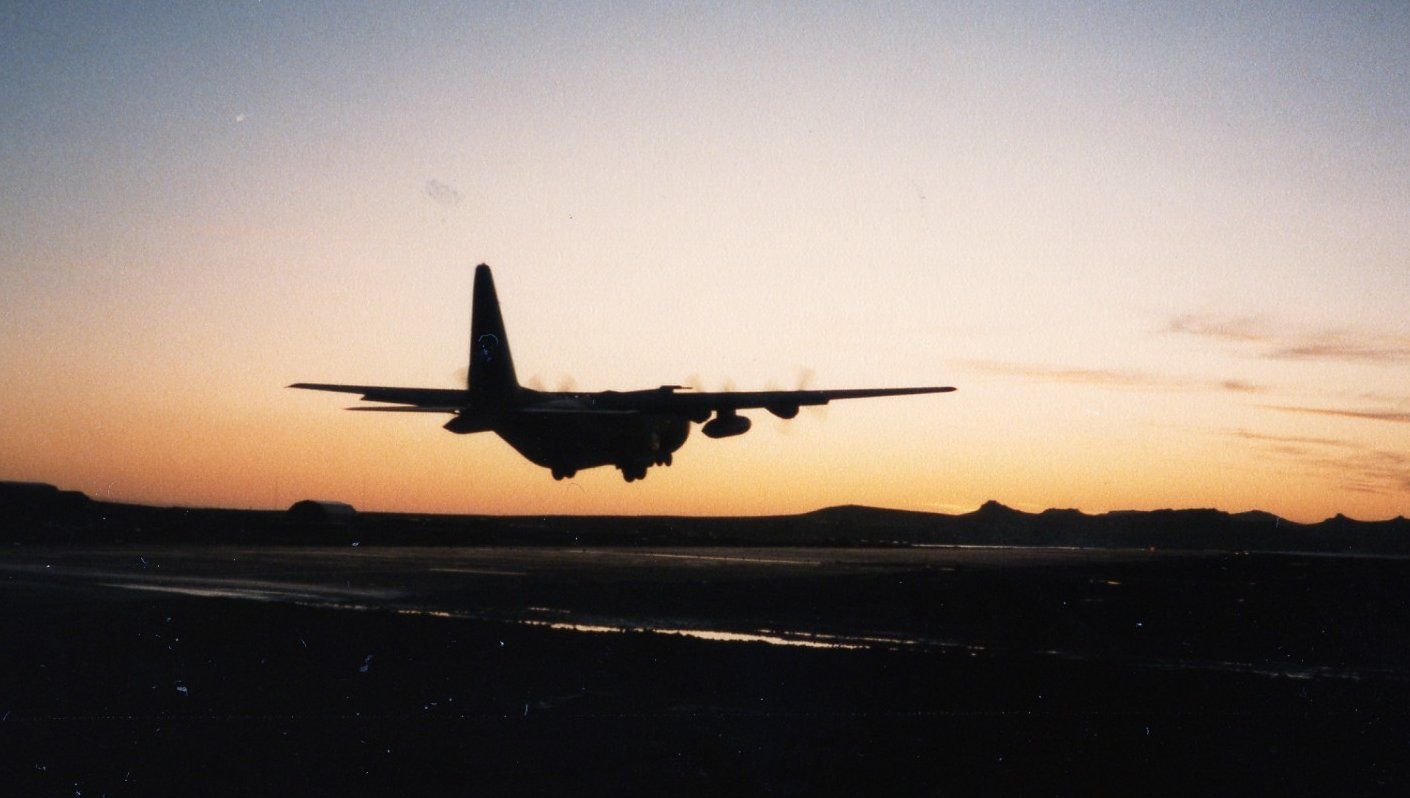 A Lockheed C-130K(P) Hercules of 1312 Flt RAF taking off into the sunset